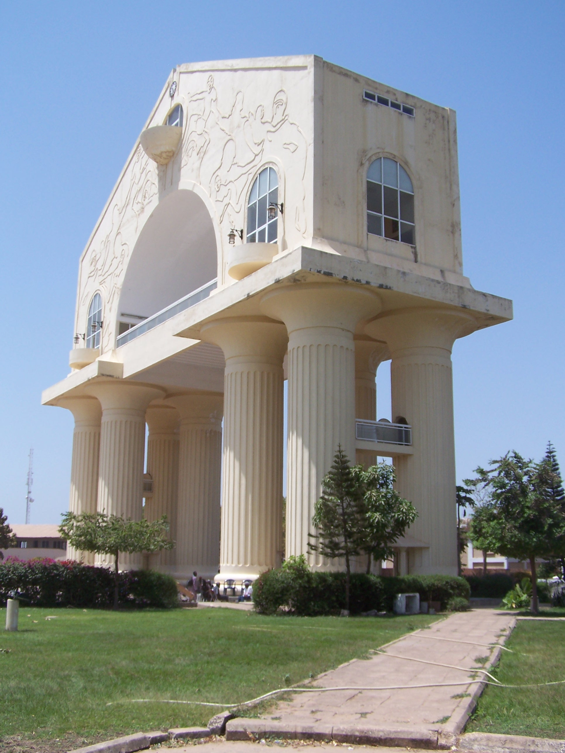 Arch 22 in Banjul